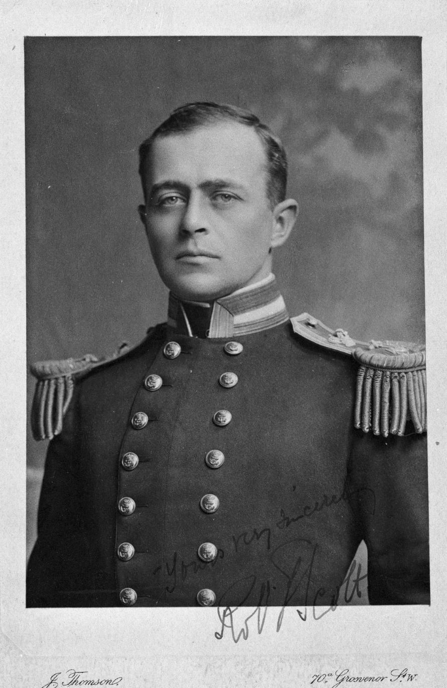 Robert Falcon Scott, polar explorer